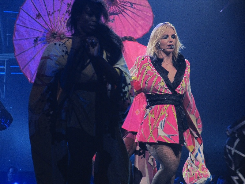 Britney Spears /Femme Fatale Tour